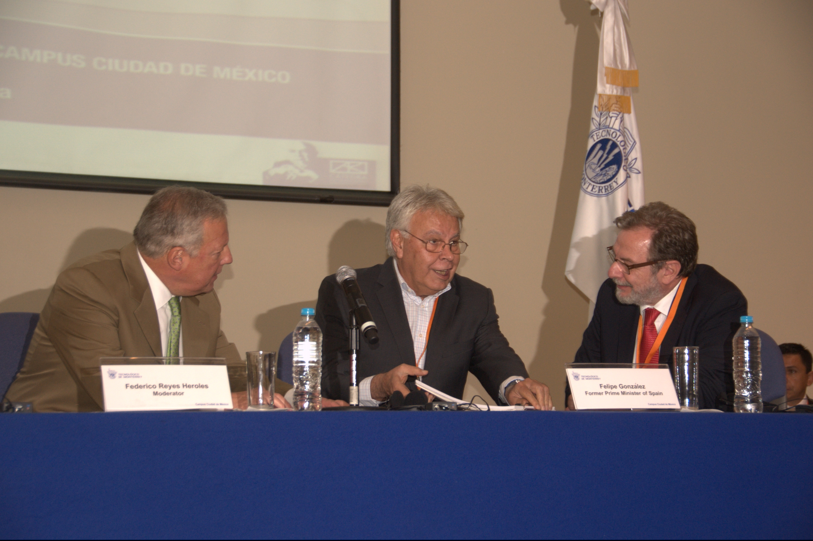 Federico Reyes Heroles, Felipe Gonzalez and Juan Luis Cebrián Echarri at the Global Governance event at ITESM- Campus Ciudad de México